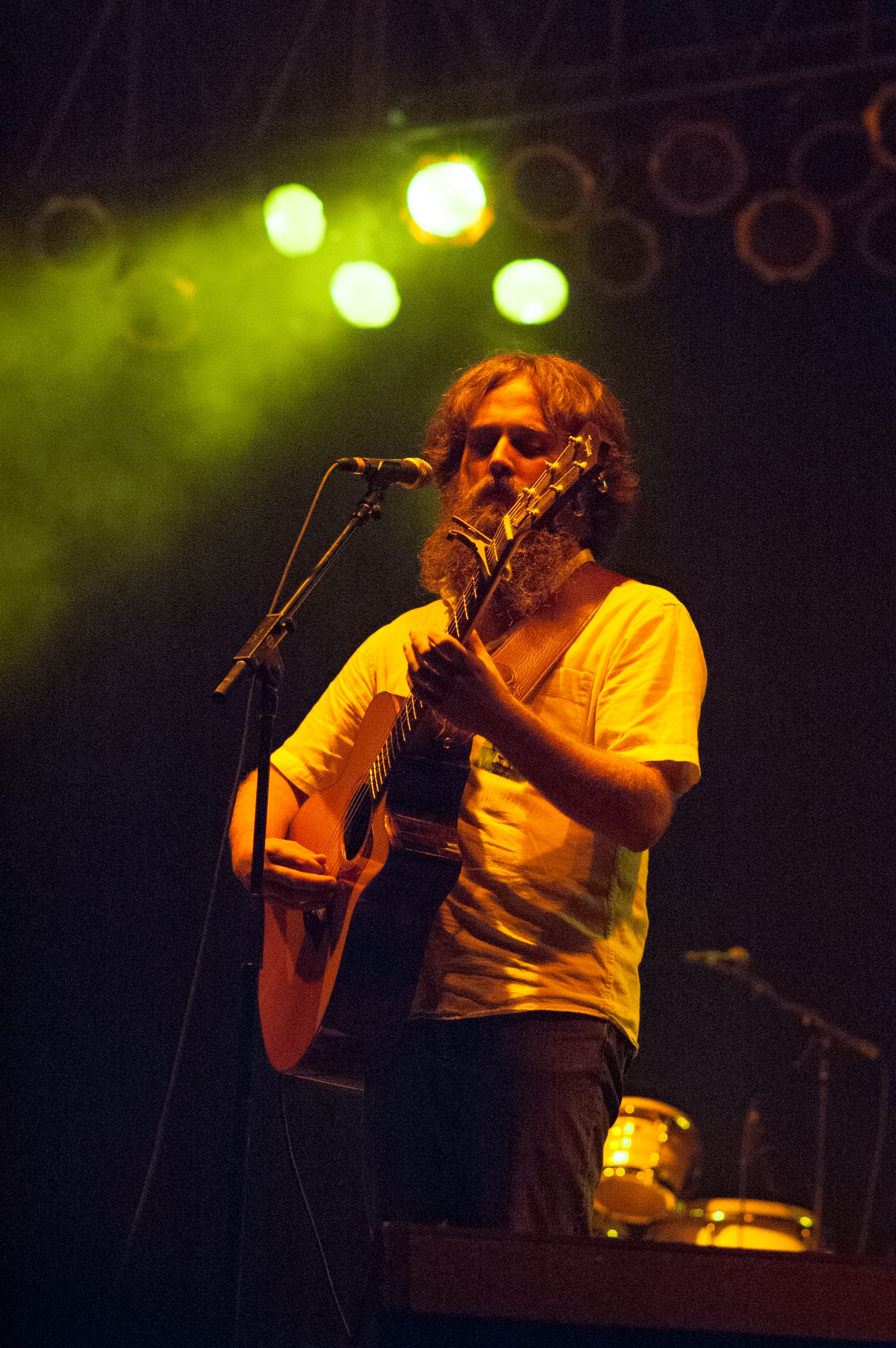 Sam Beam performing at McCarren Park Pool, Brooklyn, New York